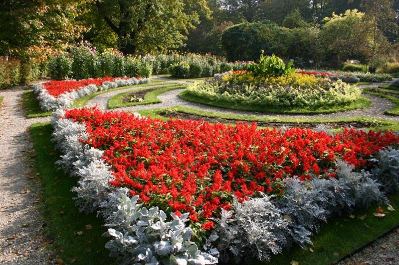 Lazienki Park in Warsaw with the permission of the authers Marek and Ewa Wojciechowscy [1]